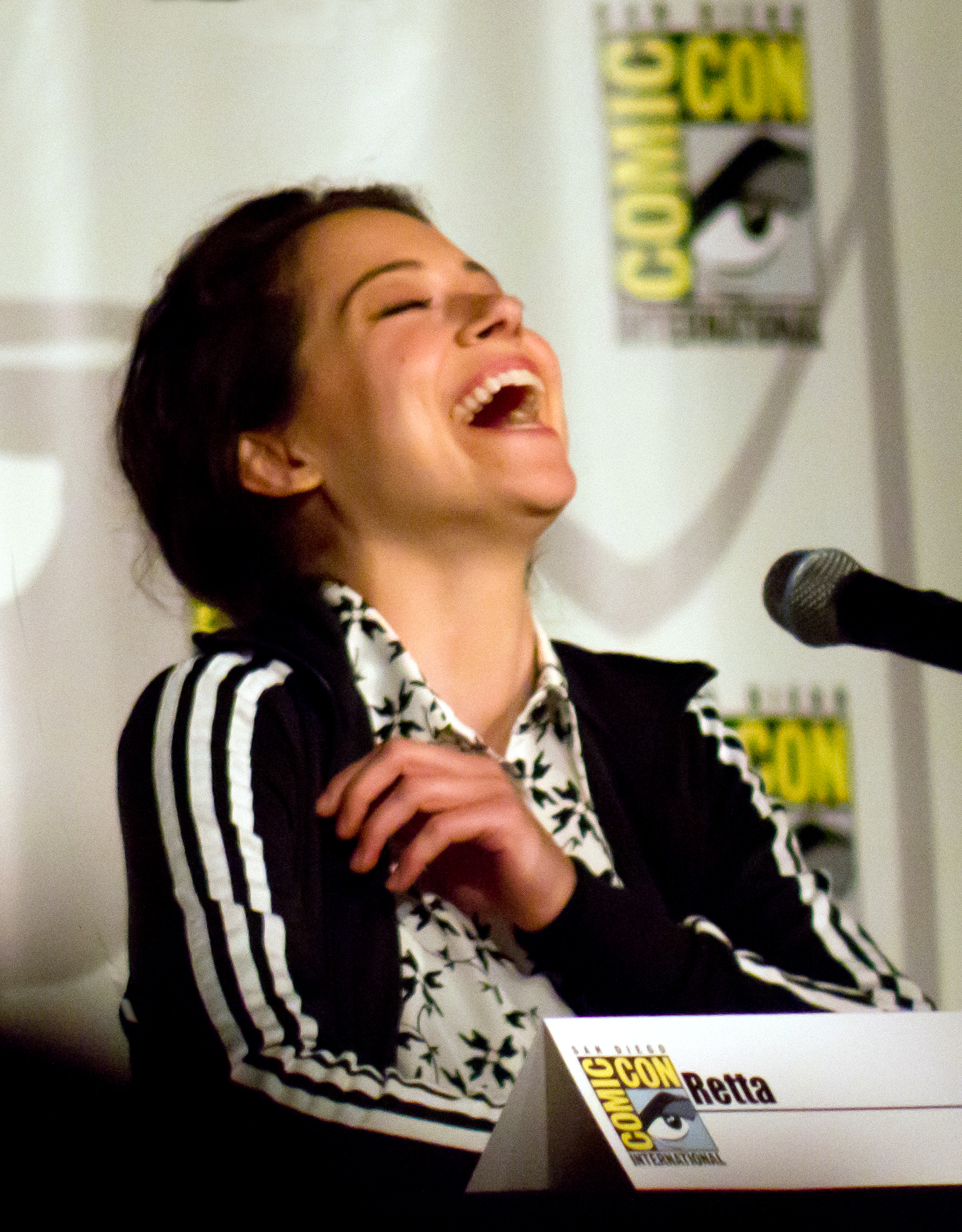 Tatiana Maslany Taken at the 2015 Comic-Con International in San Diego.